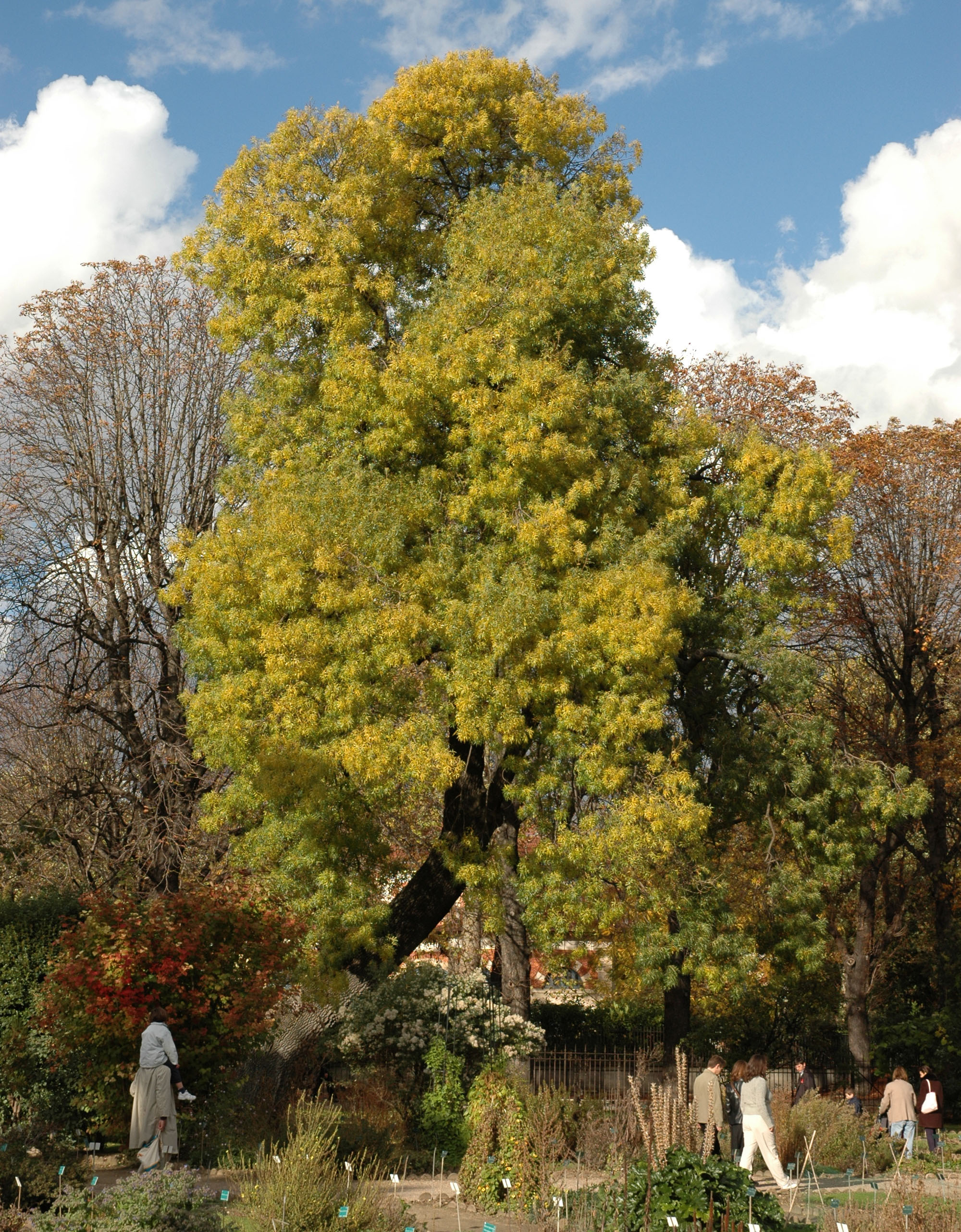 Fraxinus angustifolia Vahl in Jardin des plantes in Paris. - OpenStreetMap(Info) Other photos of the same tree